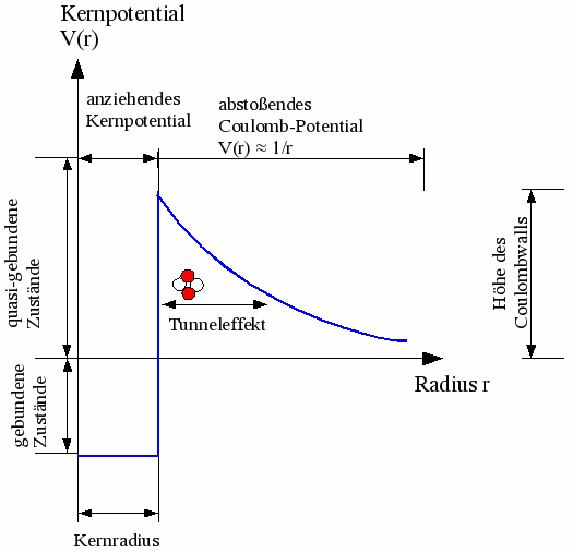 The coulomb barrier